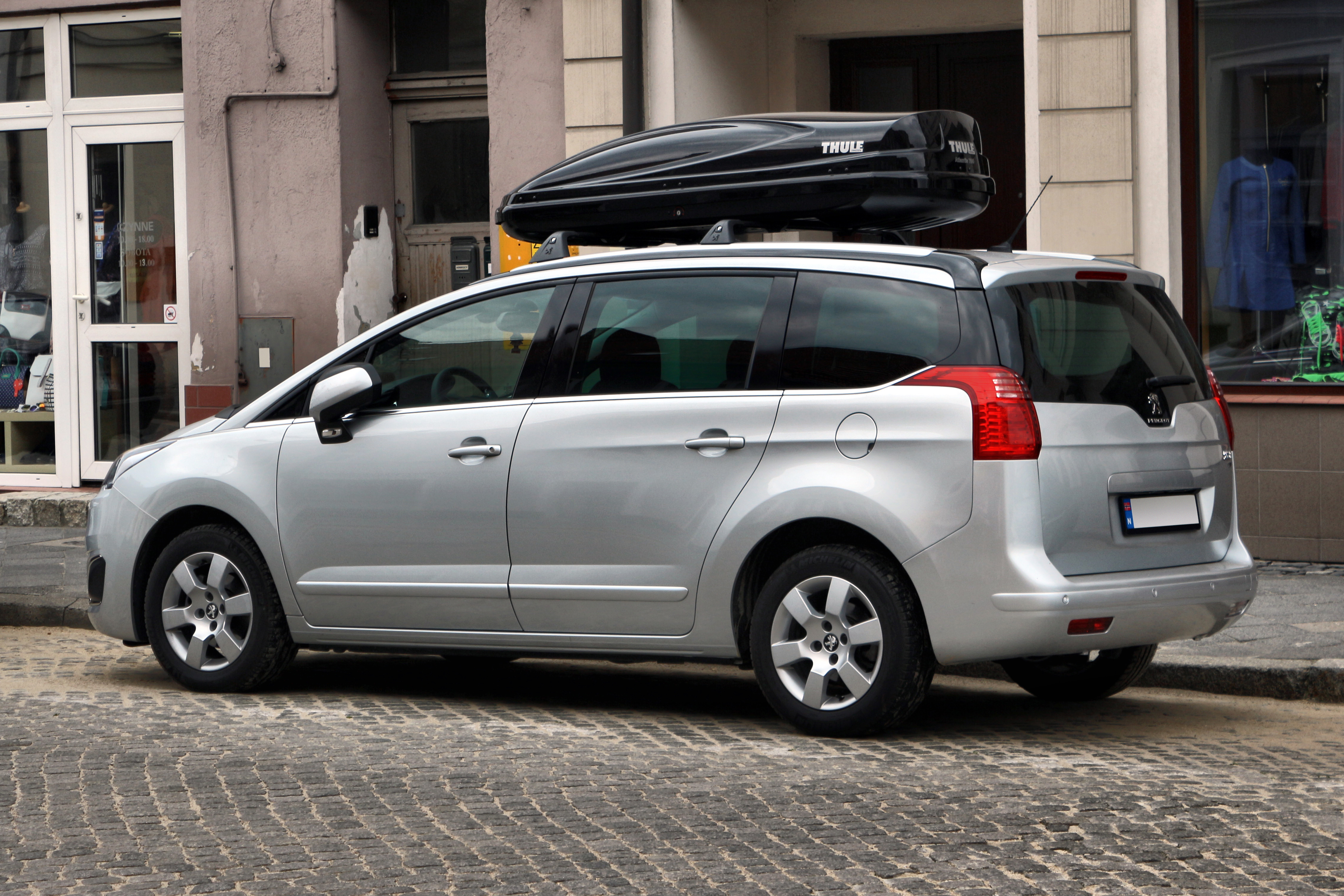 Peugeot 5008 phase 2